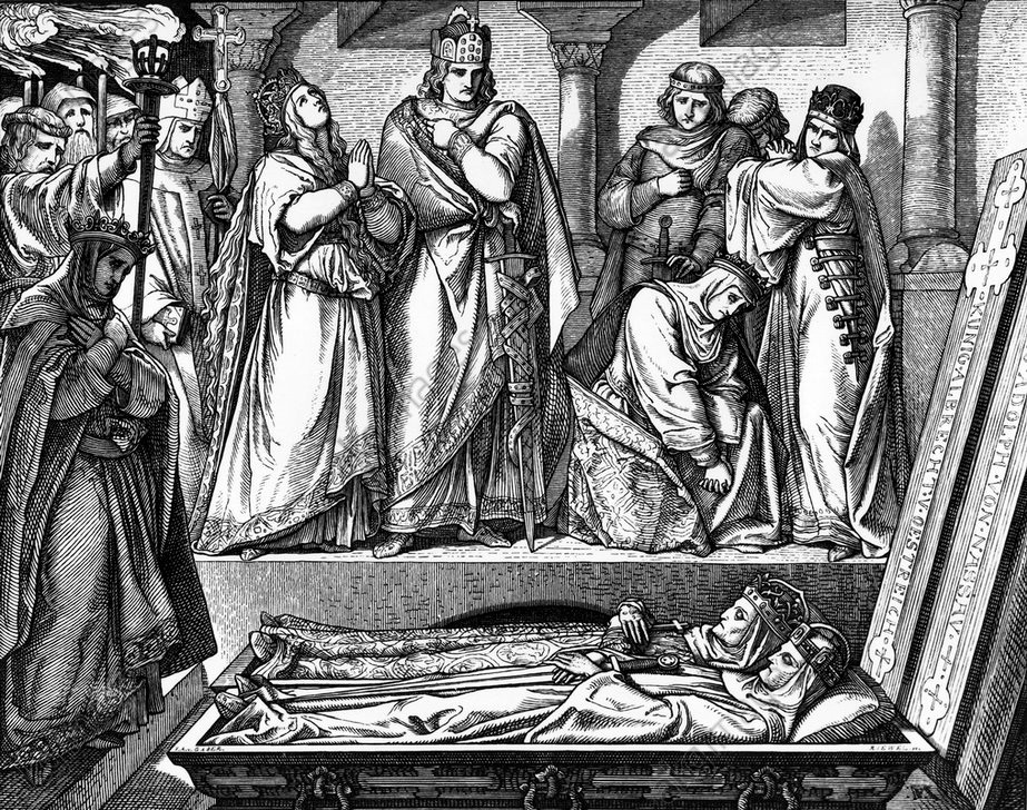 1-A307-E1309 (278) 'König Albrechts Bestattung' Albrecht I., deutscher König, 1255 - 1308. - 'König Albrechts Bestattung'. - (1309; Kaiser Heinrich VII. erlaubt die Überführung der Leichen Albrechts und König Adolfs nach Speier; am Sarg die Witwen Elisabeth und Imagina). Holzstich, um 1860, nach Zeichnung von Adolph Ehrhardt (1813-1899). 15 x 19 cm. Berlin, Slg.Archiv f.Kunst & Geschichte. E: 'King Albert's funeral' Albrert I, German king, 1255 - 1308. - 'King Albert's funeral'. - (1309; king Henry VII gives permission for the corpses of Albert and Adolph to be transported to Speier; by the coffins the widows Elizabeth and Imagina). Woodcut, c.1860, after a drawing by Adolph Ehrhardt (1813-1899). 15 x 19cm. Coll. Archiv f.Kunst & Geschichte.